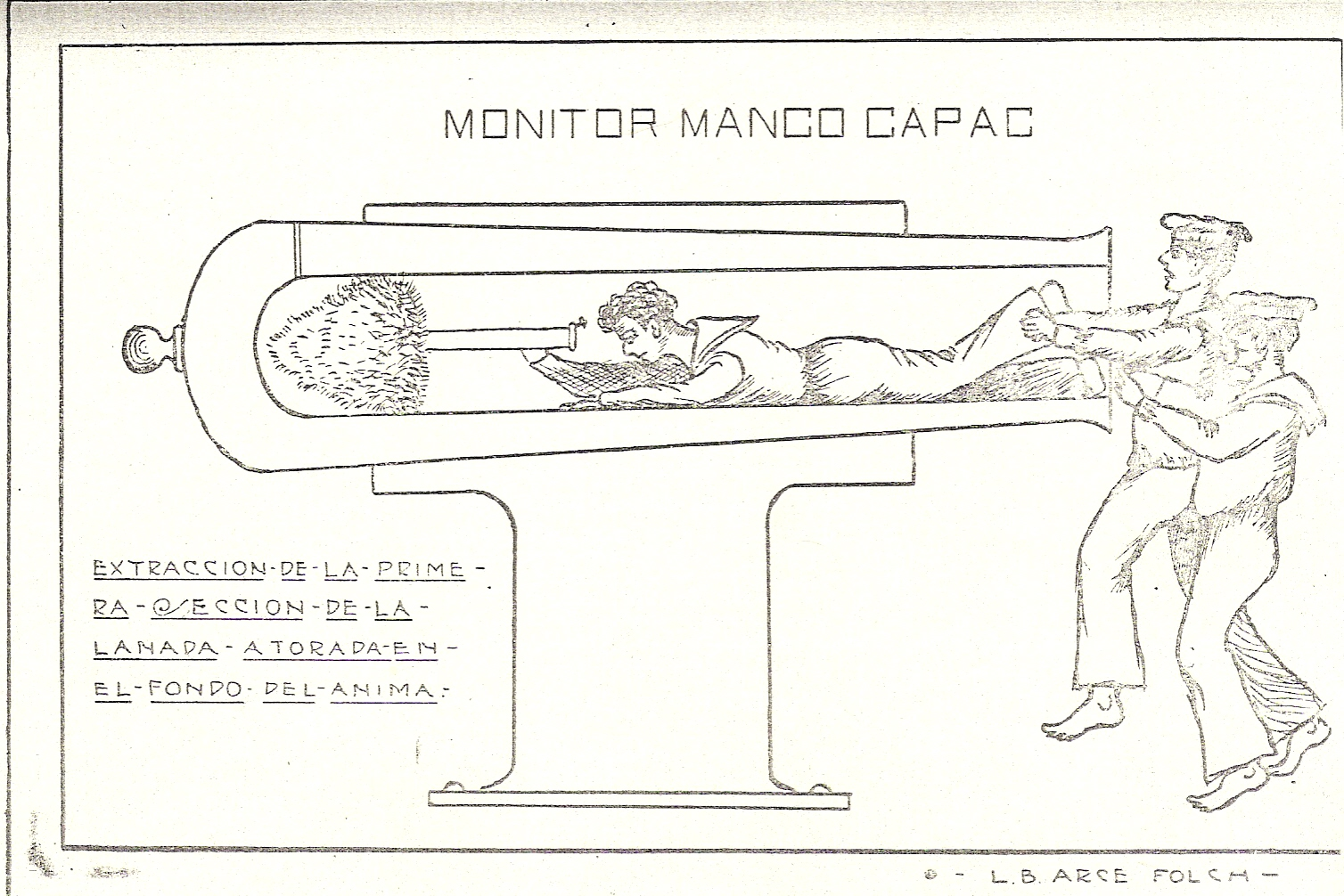 Draw of the Dahlgren gun of the peruvian monitor Manco Cápac on march 17th, 1880